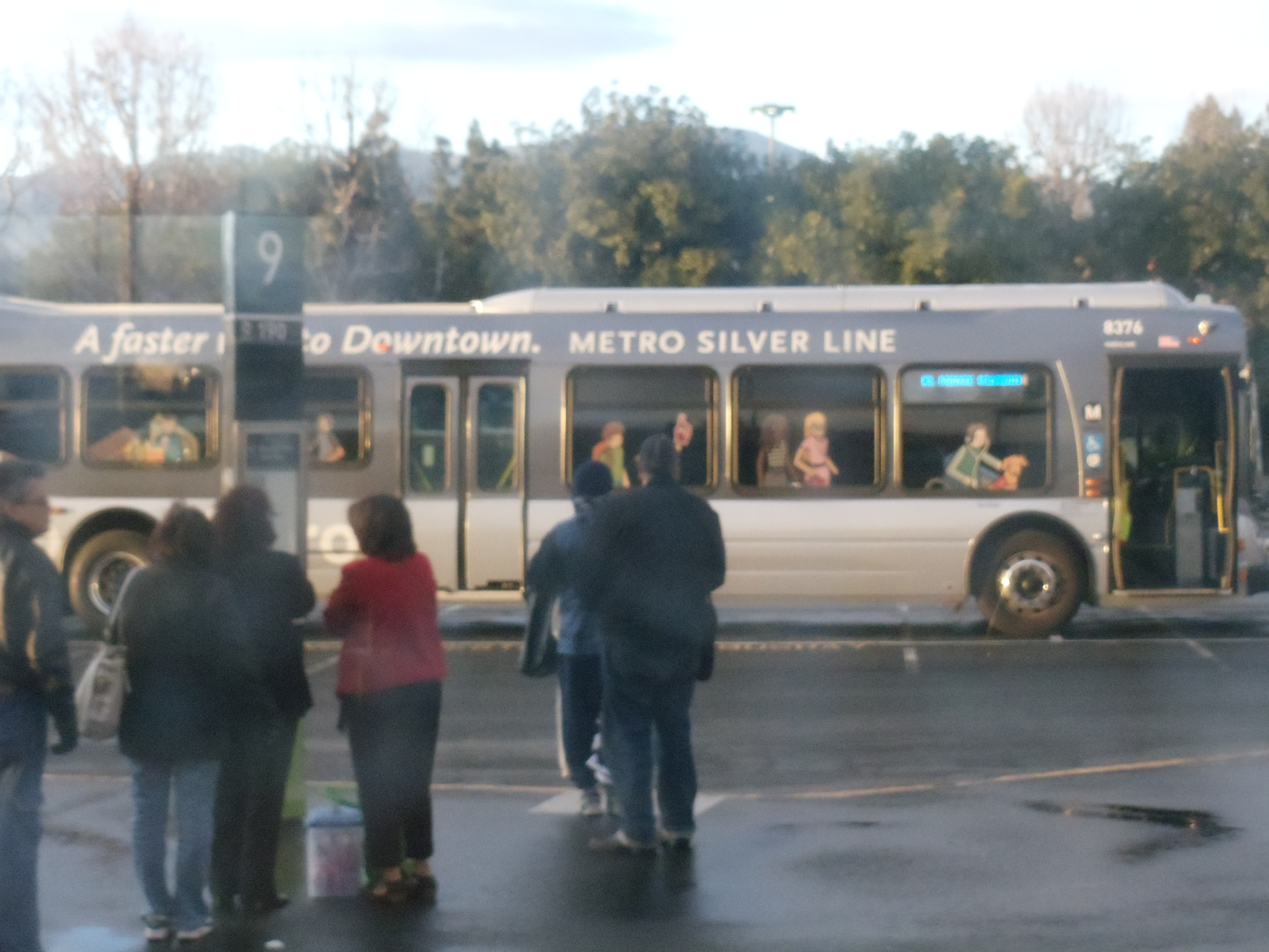 Metro Silver Line at rest